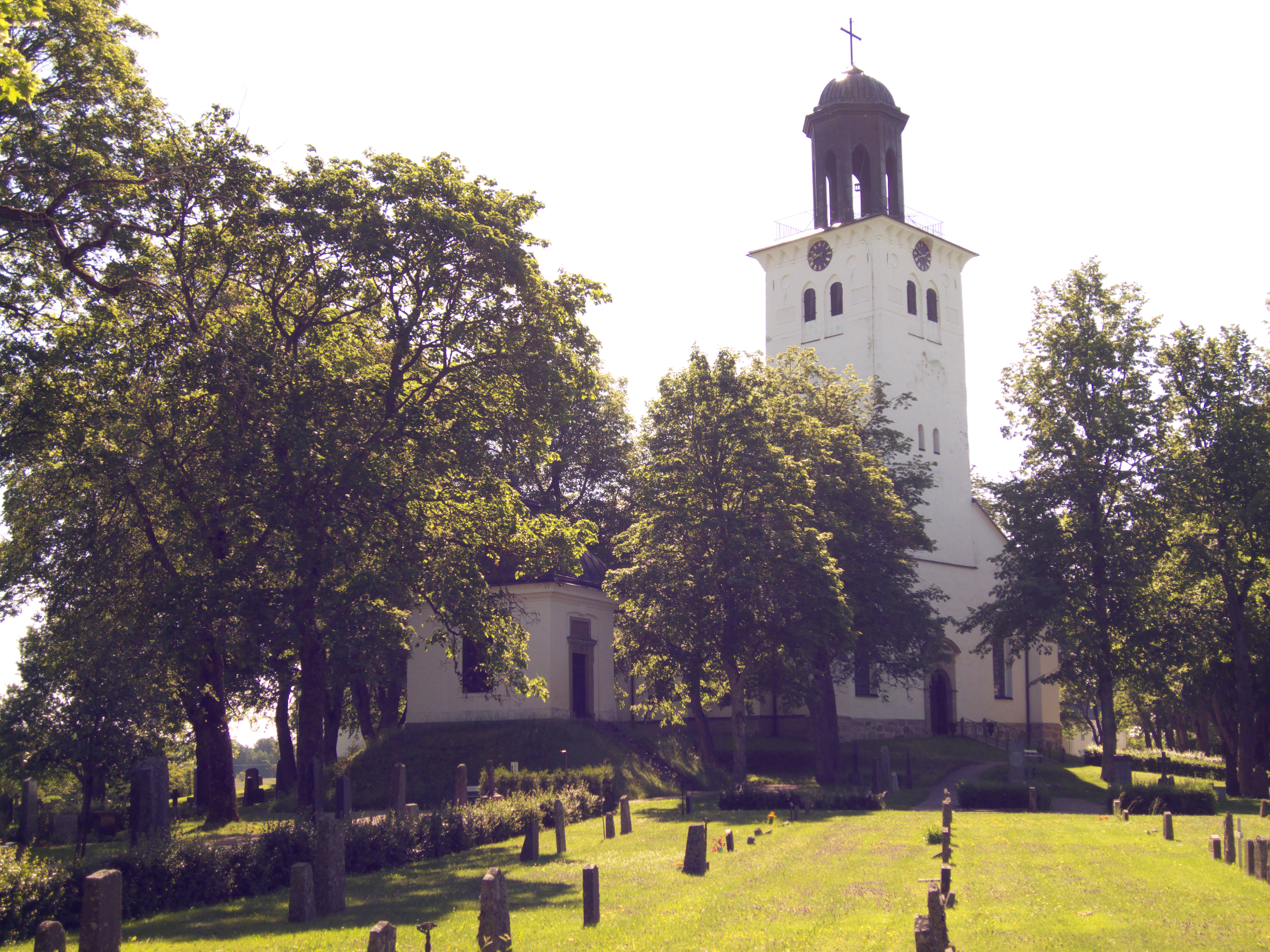 Fellingsbro church